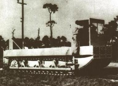 Picture of the Alligator I, 1935. It was the first „prototyp“ of the later LVT-family, developed by Donald Roebling, great-granson of John August Roebling who built the Brooklyn Bridge in New York City.